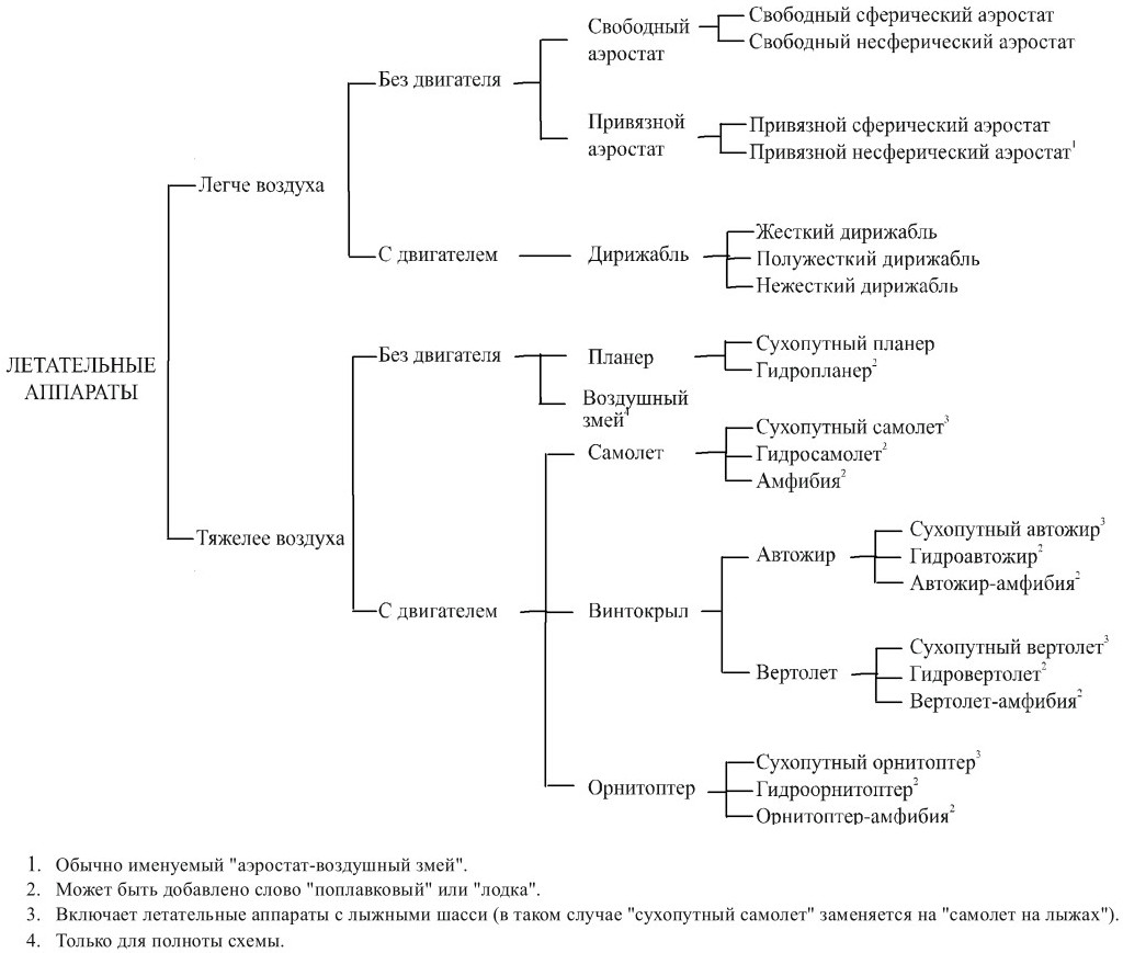 Extract from (Russian language version) Aircraft Nationality and Registration Marks Page 2., Section 2. CLASSIFICATION OF AIRCRAFT, Table 1. Classification of aircraft